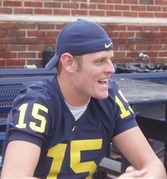 Ryan Mallett